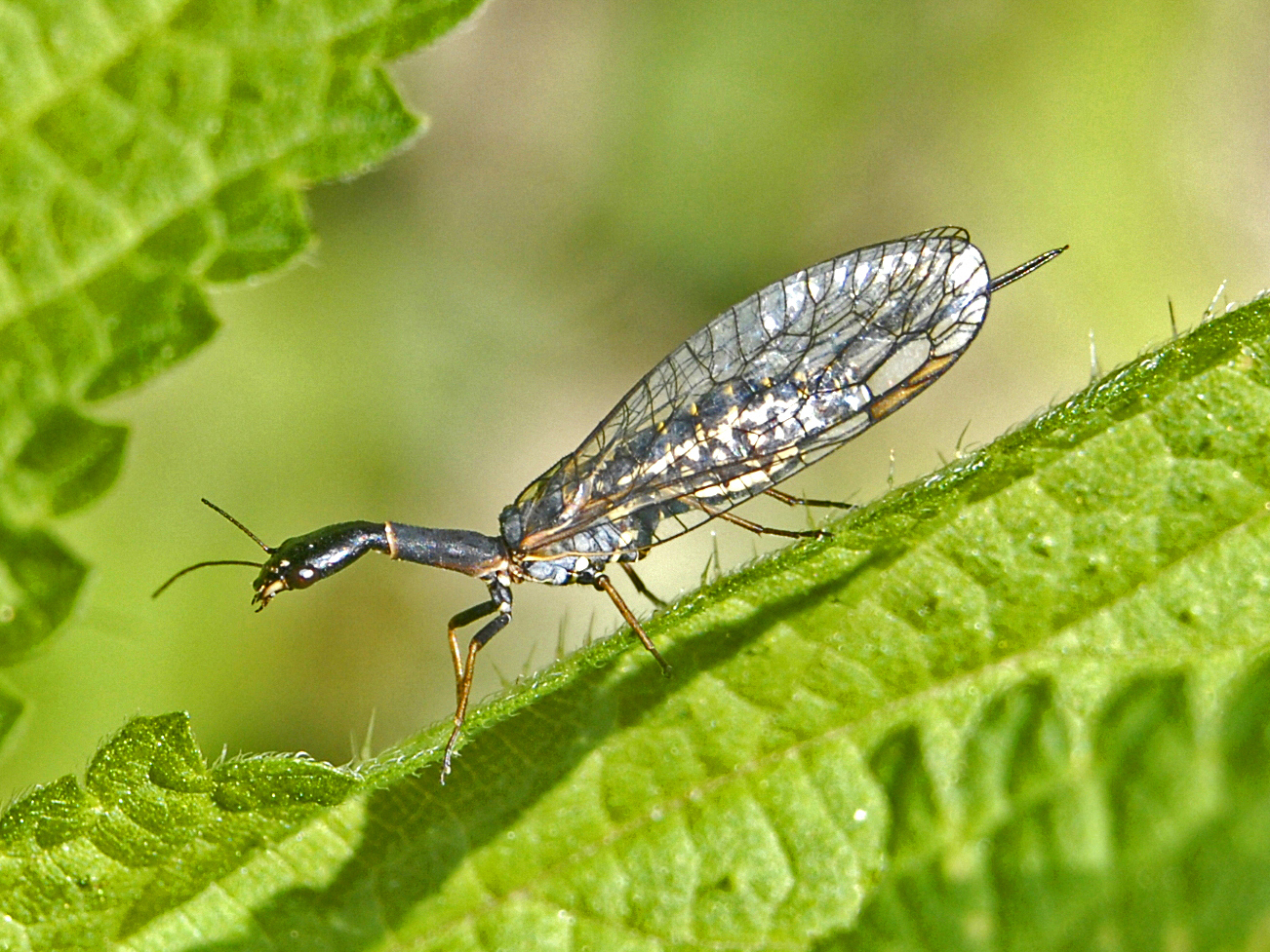 Puncha ratzeburgi, female. Val di Rhemes, Aosta, Italy